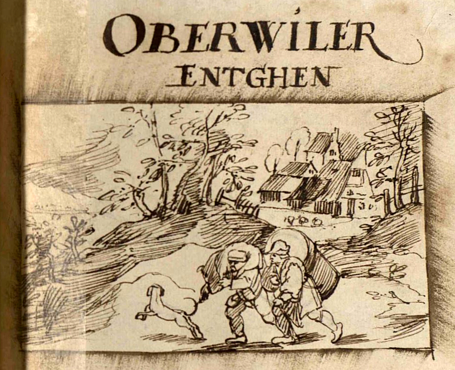 "Oberwiler Entghen" (today: Oberweiler, Verbandsgemeinde Bitburg-Land, Eifelkreis Bitburg-Prüm) by Jean Bertels, ~1597